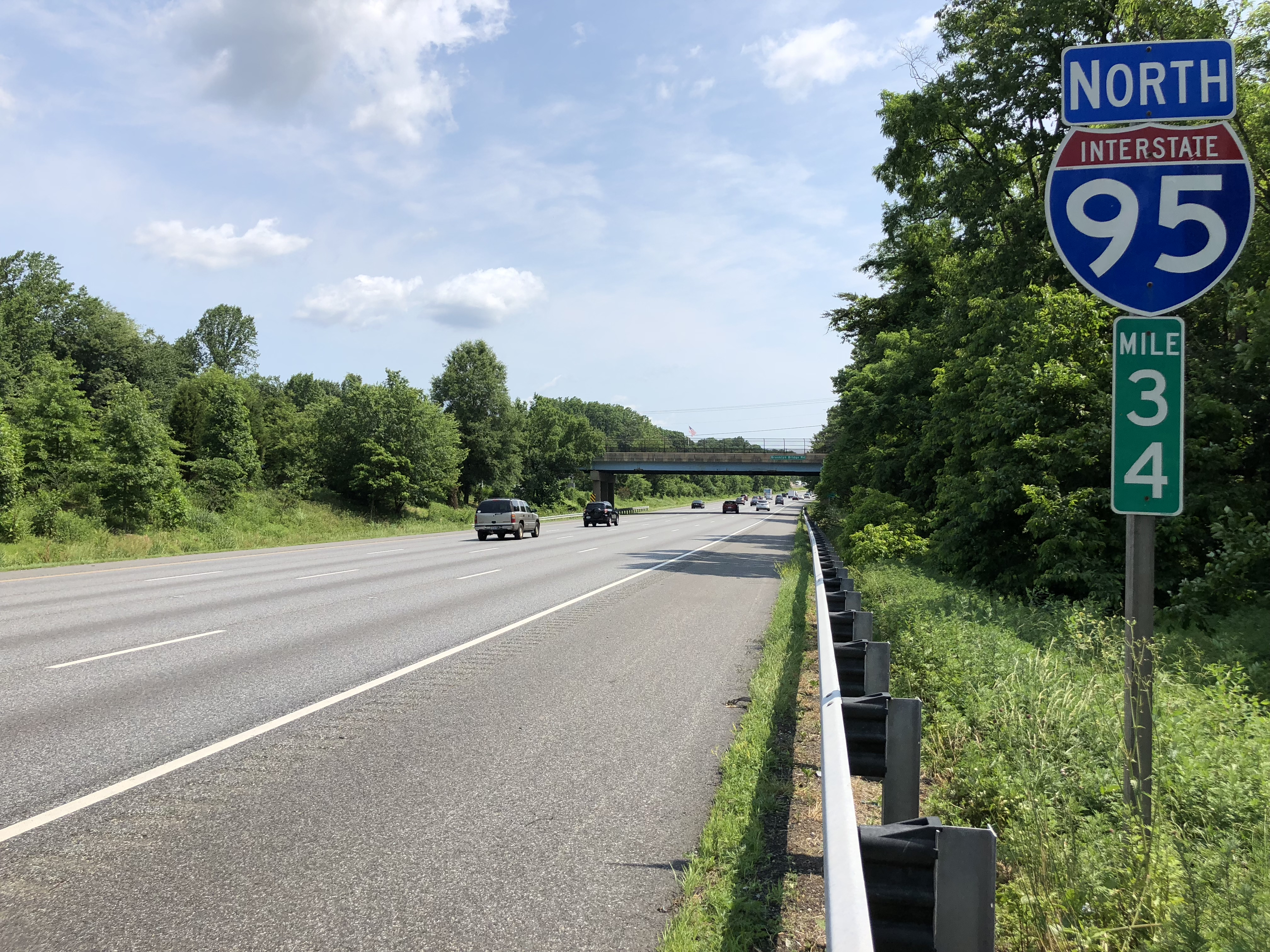 View north along Interstate 95 just north of Exit 33 in Laurel, Prince George's County, Maryland